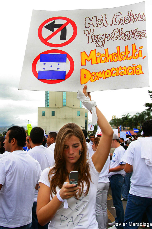 The sign opposes Manuel Zelaya, Fidel Castro, and Hugo Chávez. It supports Roberto Micheletti and democracy.